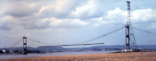 Construction of the first Severn Bridge 1965